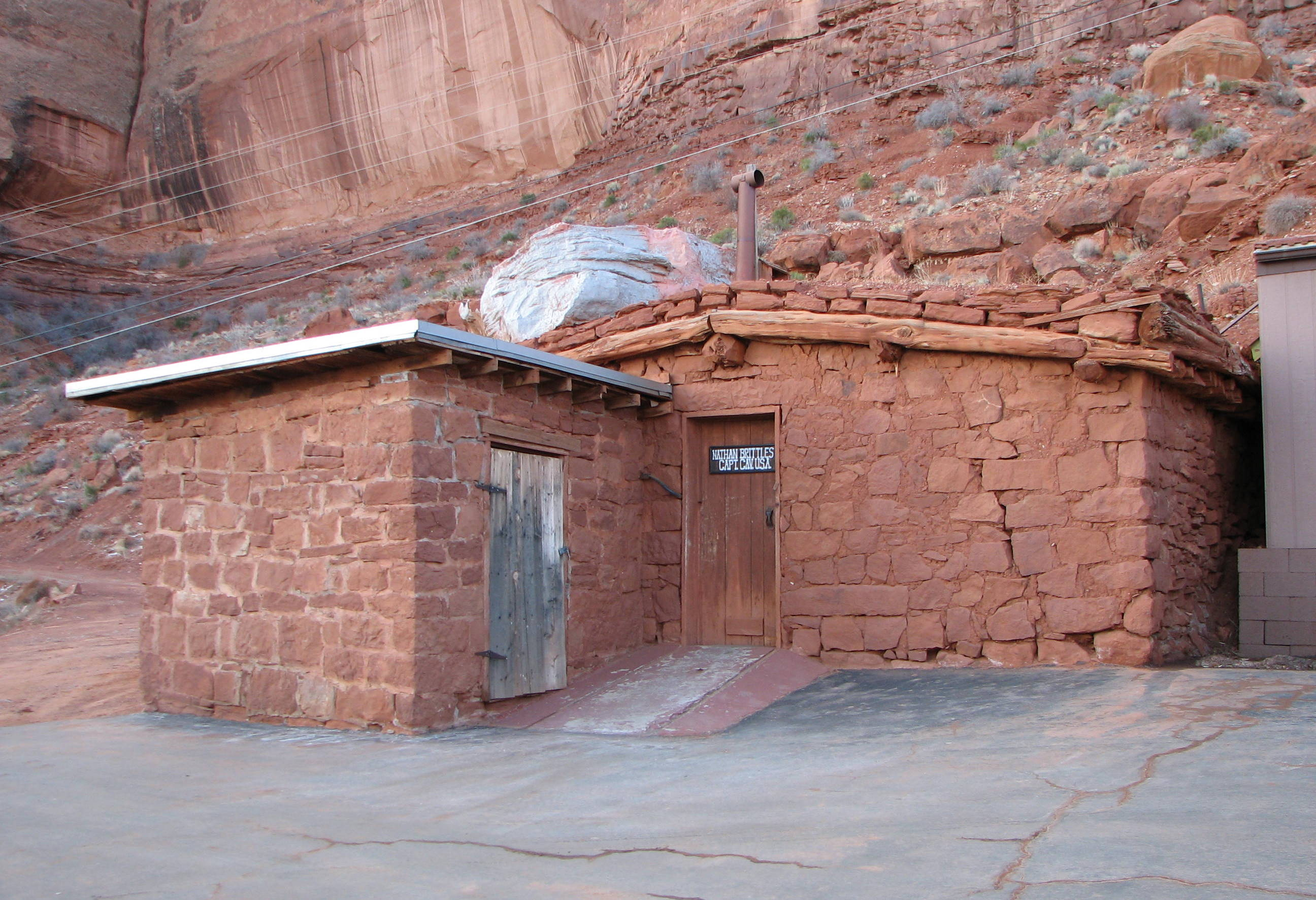 The Post Headquarters building where Nathan Brittles (John Wayne) lived in the movie "She Wore a Yellow Ribbon", located at Goulding's Lodge near Monument Valley, Utah, USA